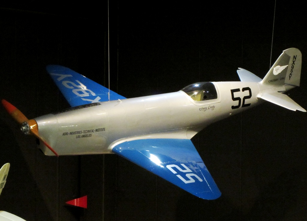 Crosby CR-4